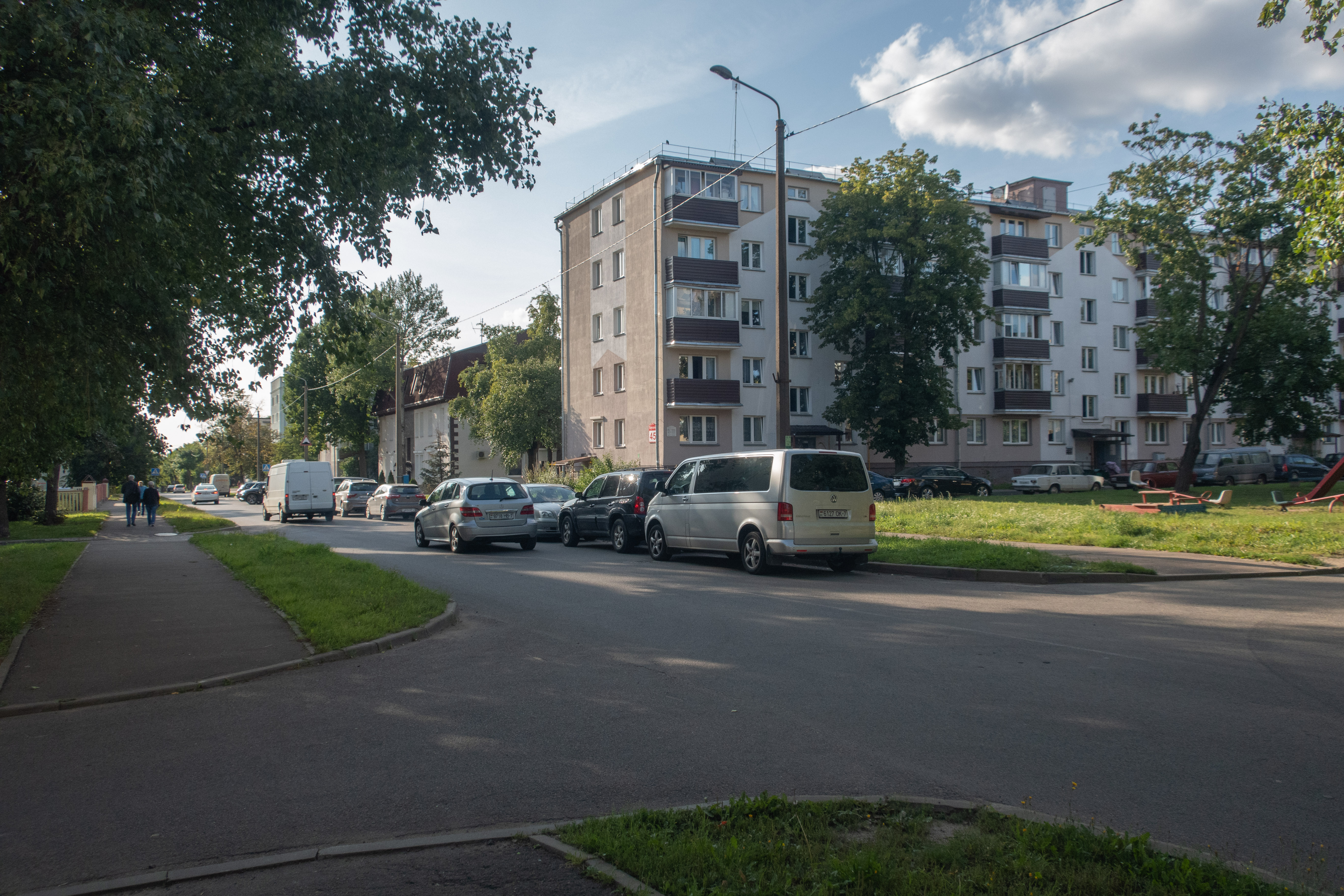 Narodnaja street. Minsk, Belarus